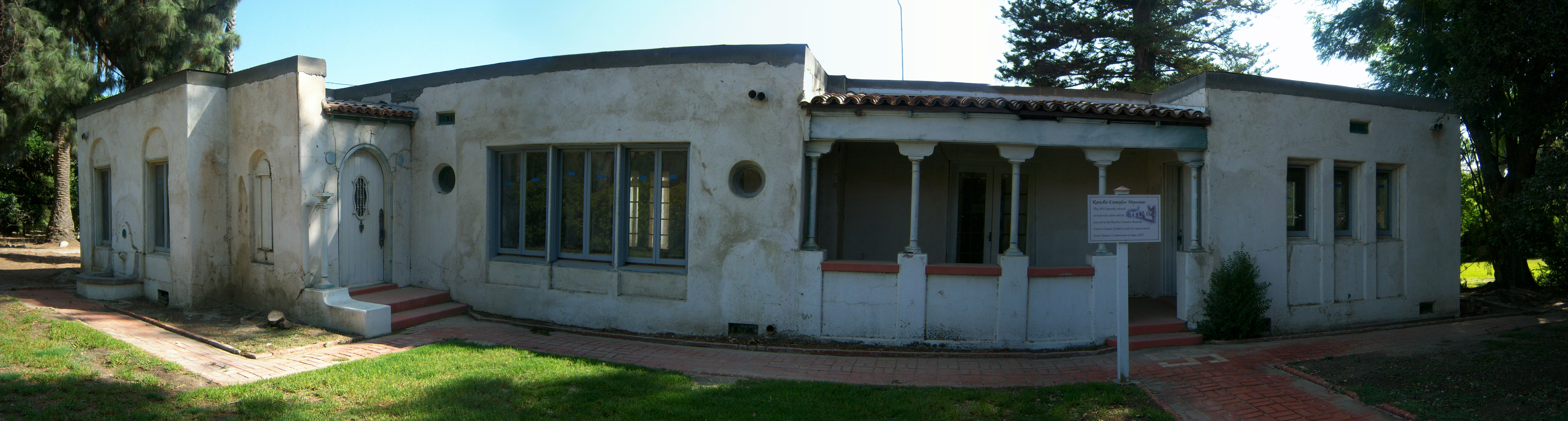 Small adobe, built by Nachito del Valle, which serves as the visitor center for Rancho Camulos.